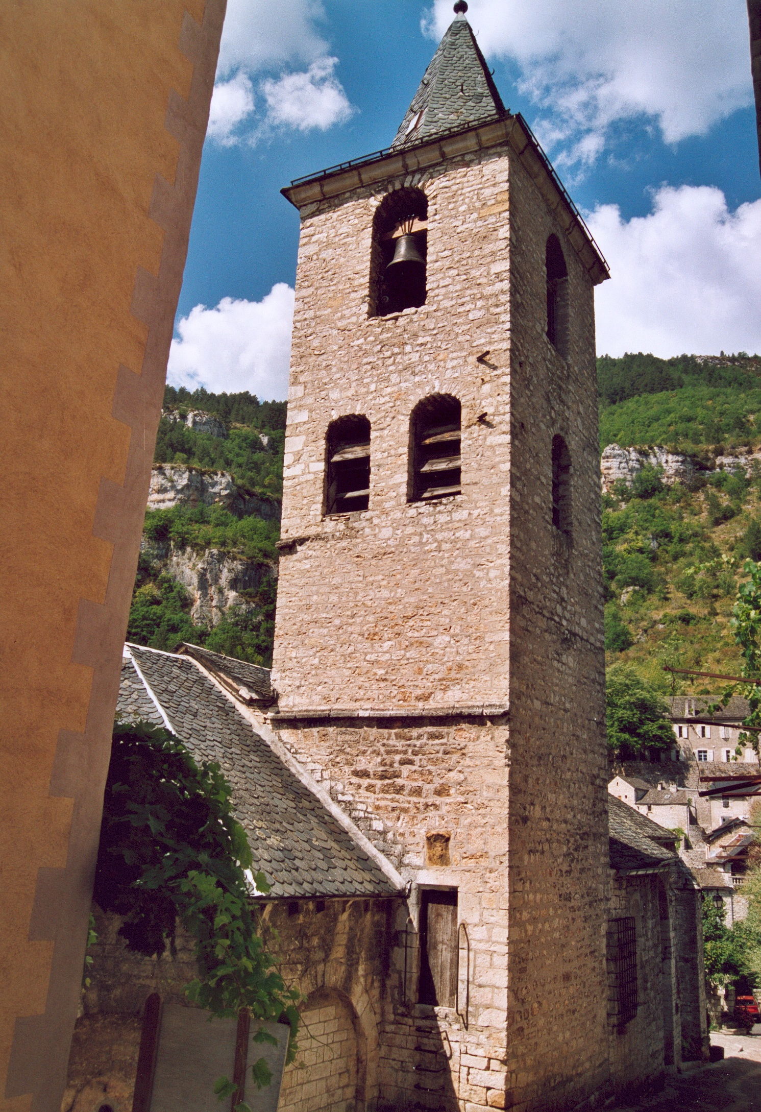 Eglise Notre-Dame-du-Gourg, the church of Sainte-Enimie, Lozère (France)